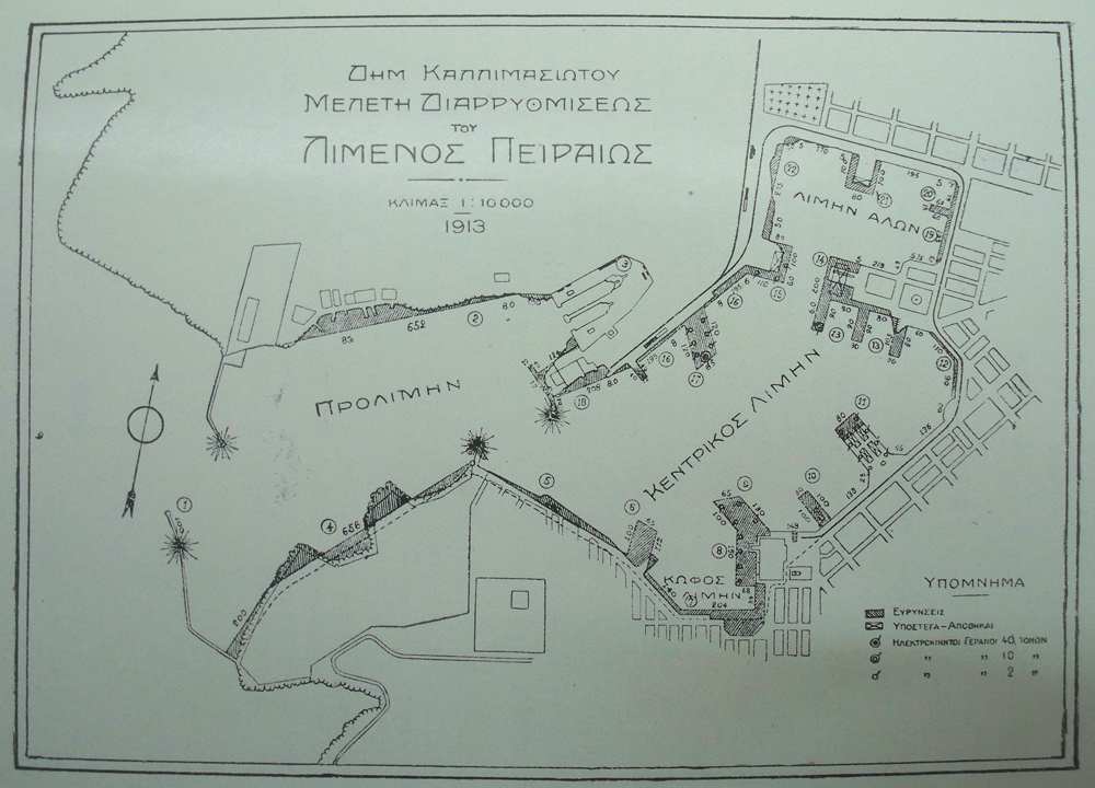 Plans for renovation of Piraeus port, Greece